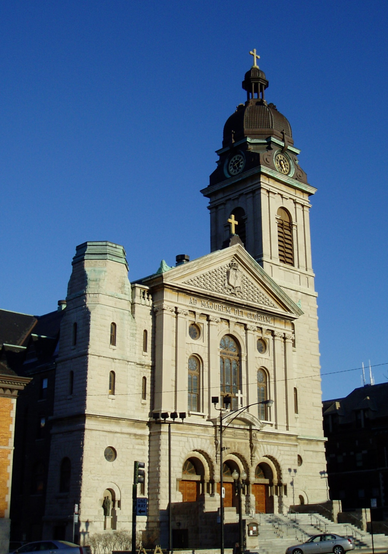 The limestone facade of St. John Cantius Church in Chicago Illinois. St. John Cantius is a historic church of the Roman Catholic Archdiocese of Chicago known for its solemn liturgies and rich program of sacred art and music.